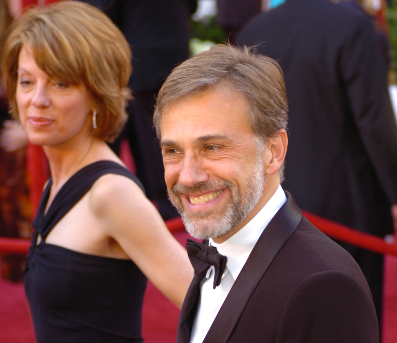 Christoph Waltz and wife Judith Holste walk the red carpet at the 82nd Academy Awards, March 7, in Hollywood, Calif. Waltz took home the best supporting actor Oscar for his role of Col. Hans Landa in "Inglourious Basterds."